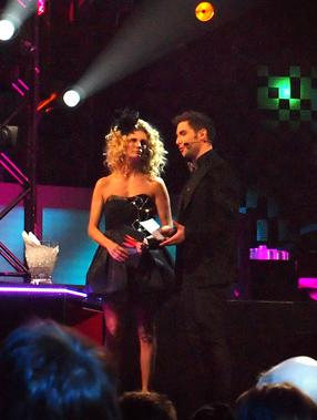 Hosts Måns Zelmerlöw and Christine Meltzer during the rehearsals of Melodifestivalen in Sandviken, Sweden